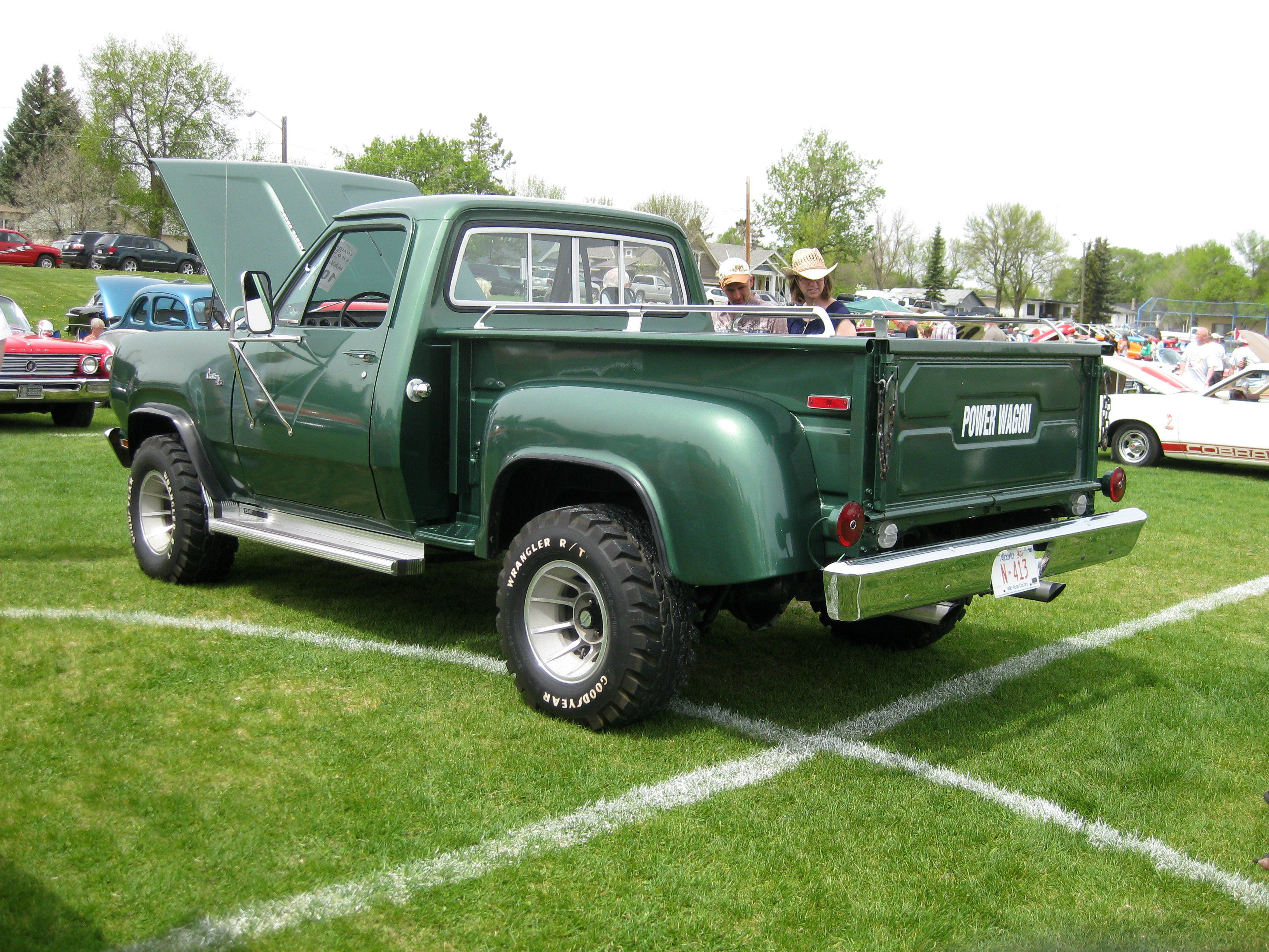 A very nice 1977 Dodge Power Wagon pickup truck with a step side box.